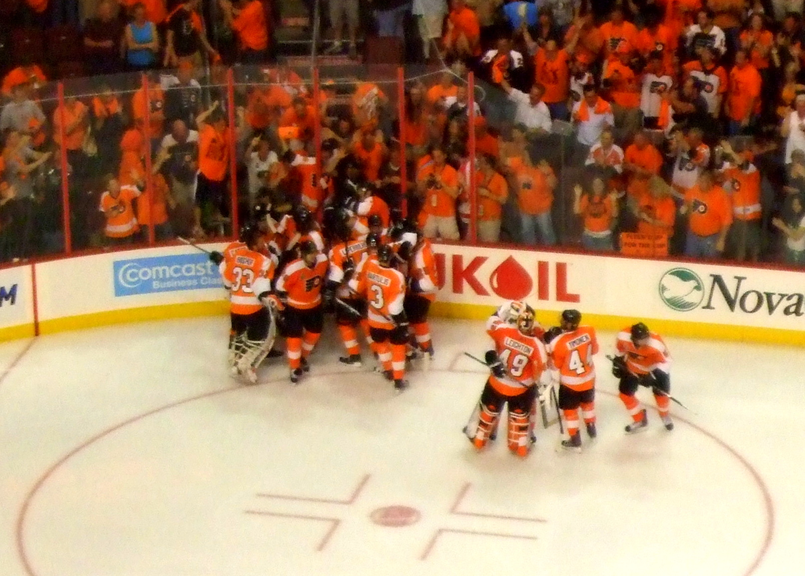 The Philadelphia Flyers celebrate Claude Giroux's overtime goal in Game 3 of the 2010 Stanley Cup Finals.